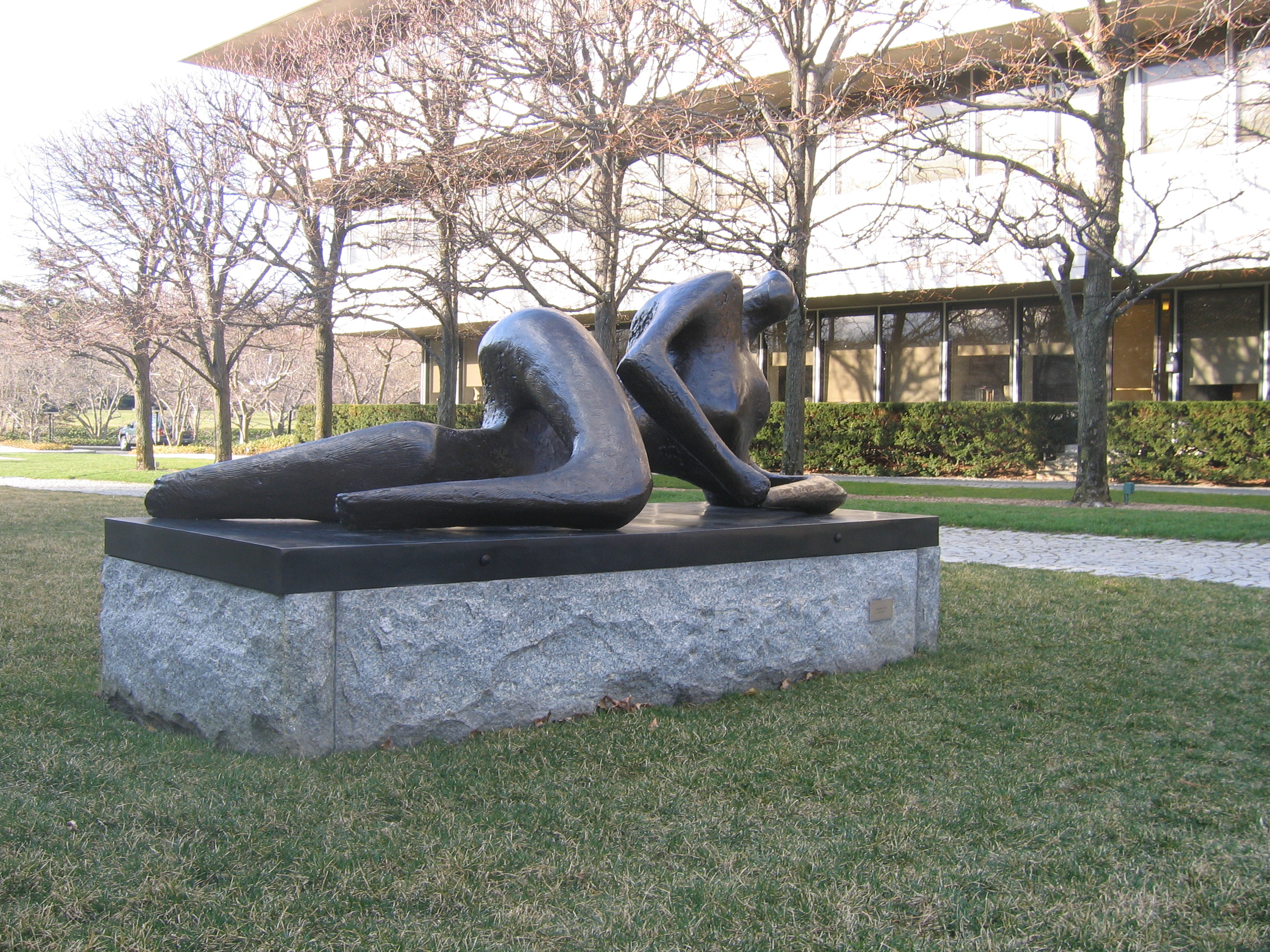 Reclining woman, by Henry Moore. Taken at Donald M Kendall sculpture garden at Pepsico world headquarters, Purcahse, NY